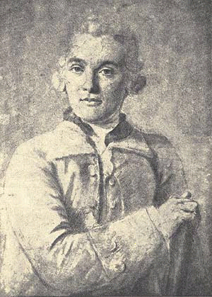 François-Antoine Chevrier (1721-1762), French satirical writer